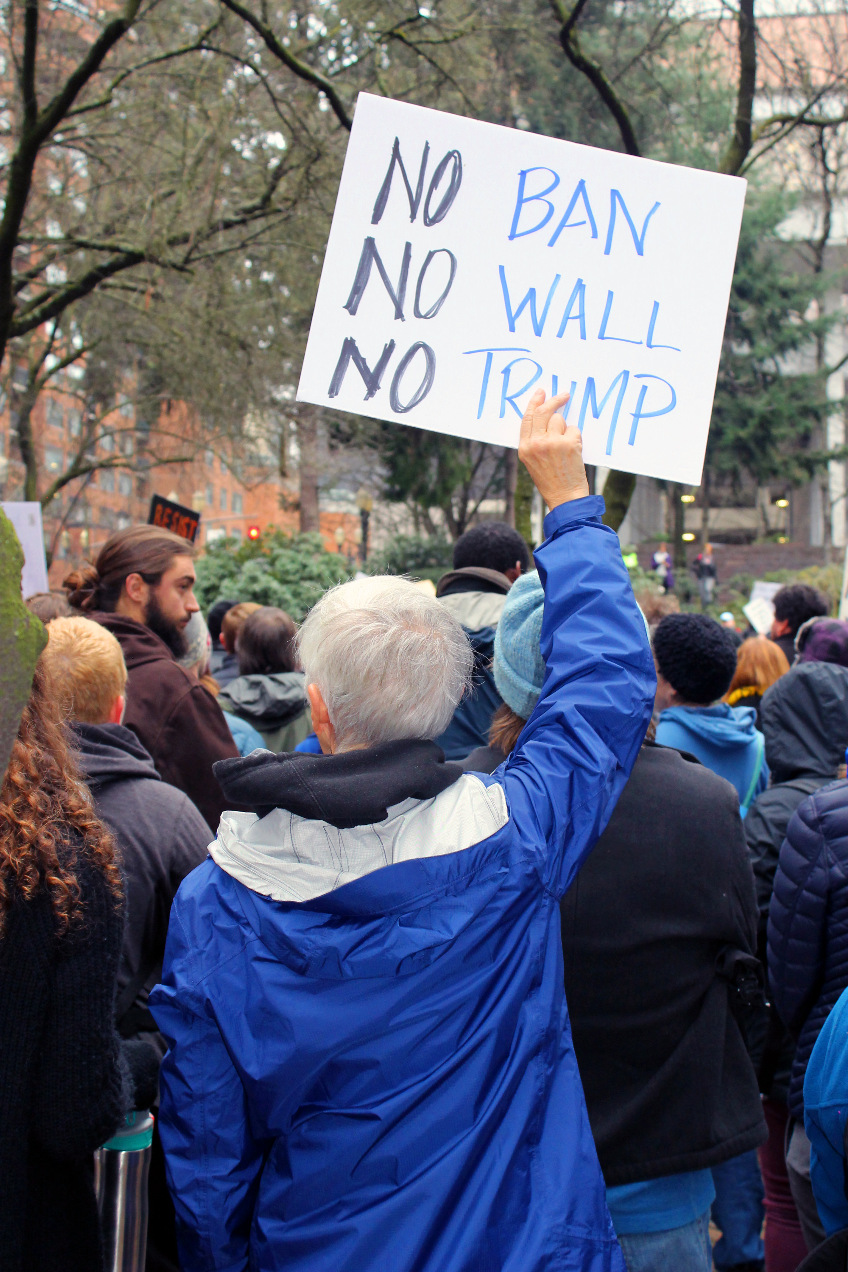 No Ban, No Wall rally in Portland, Oregon.